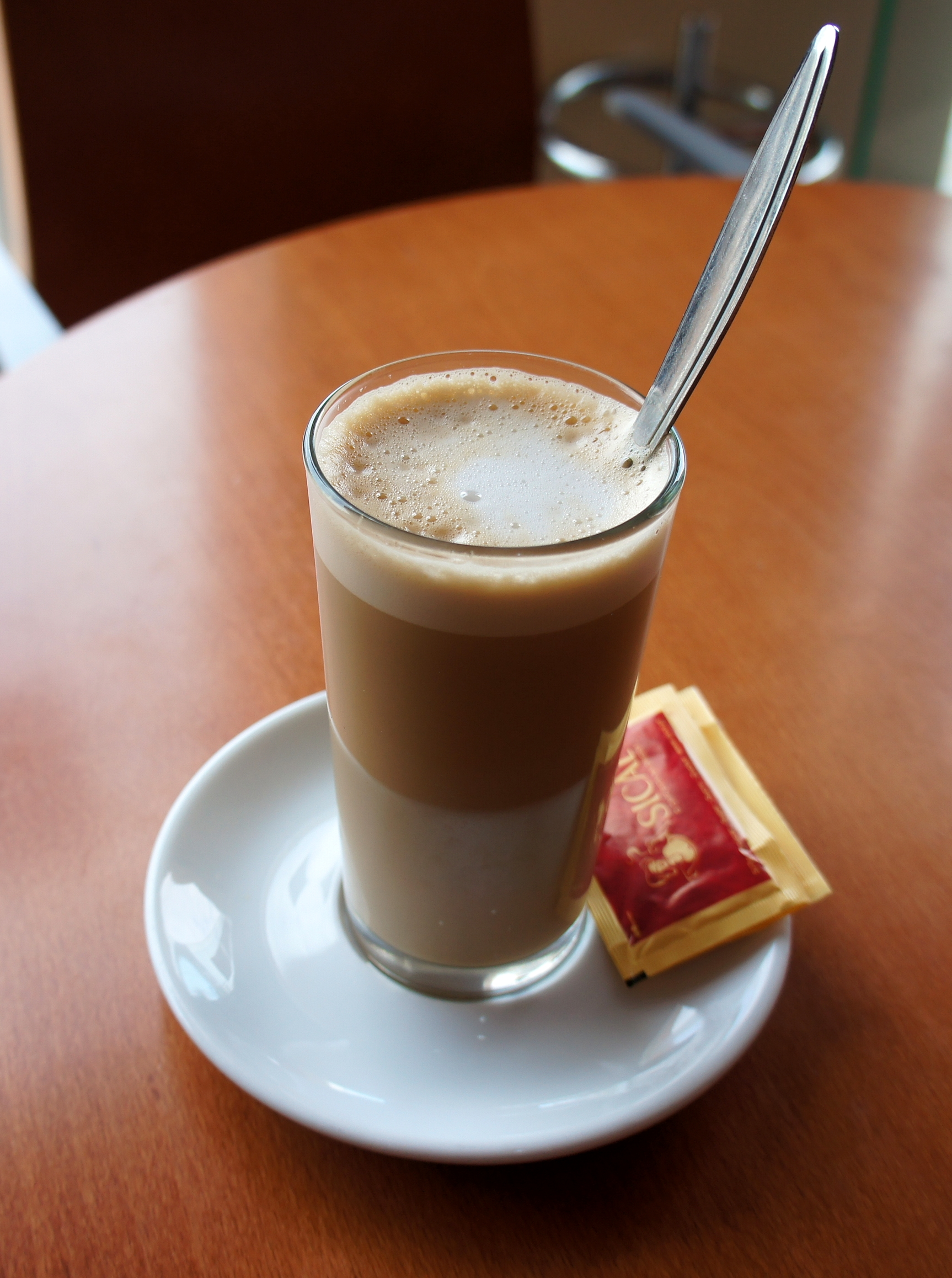 Galão in a bakery in São Vicente (Madeira, Portugal).